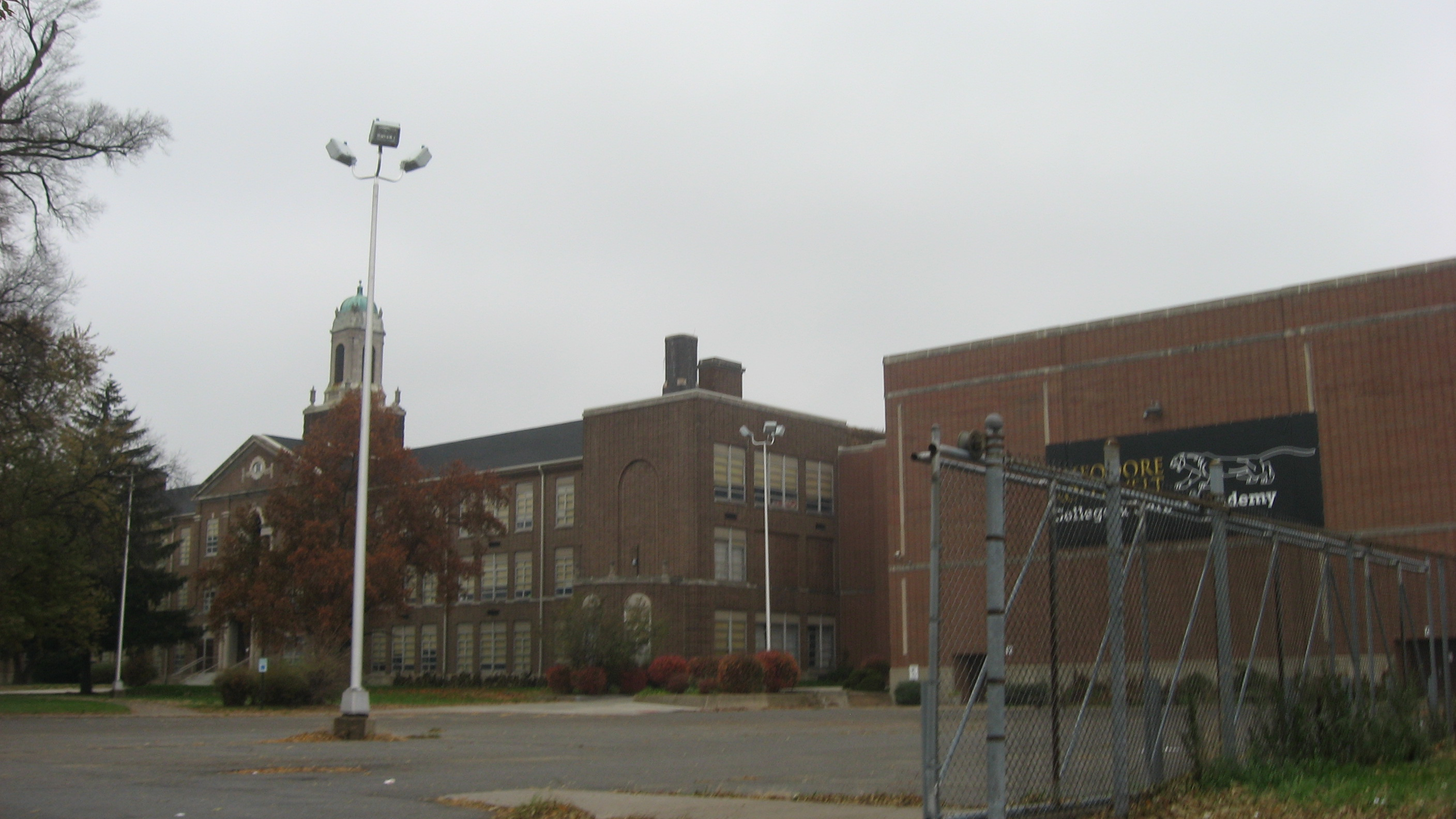 Eastern side of Theodore Roosevelt High School, located at 730 W. Twenty-fifth Avenue in Gary, Indiana, United States. Built in 1930, it is listed on the National Register of Historic Places.